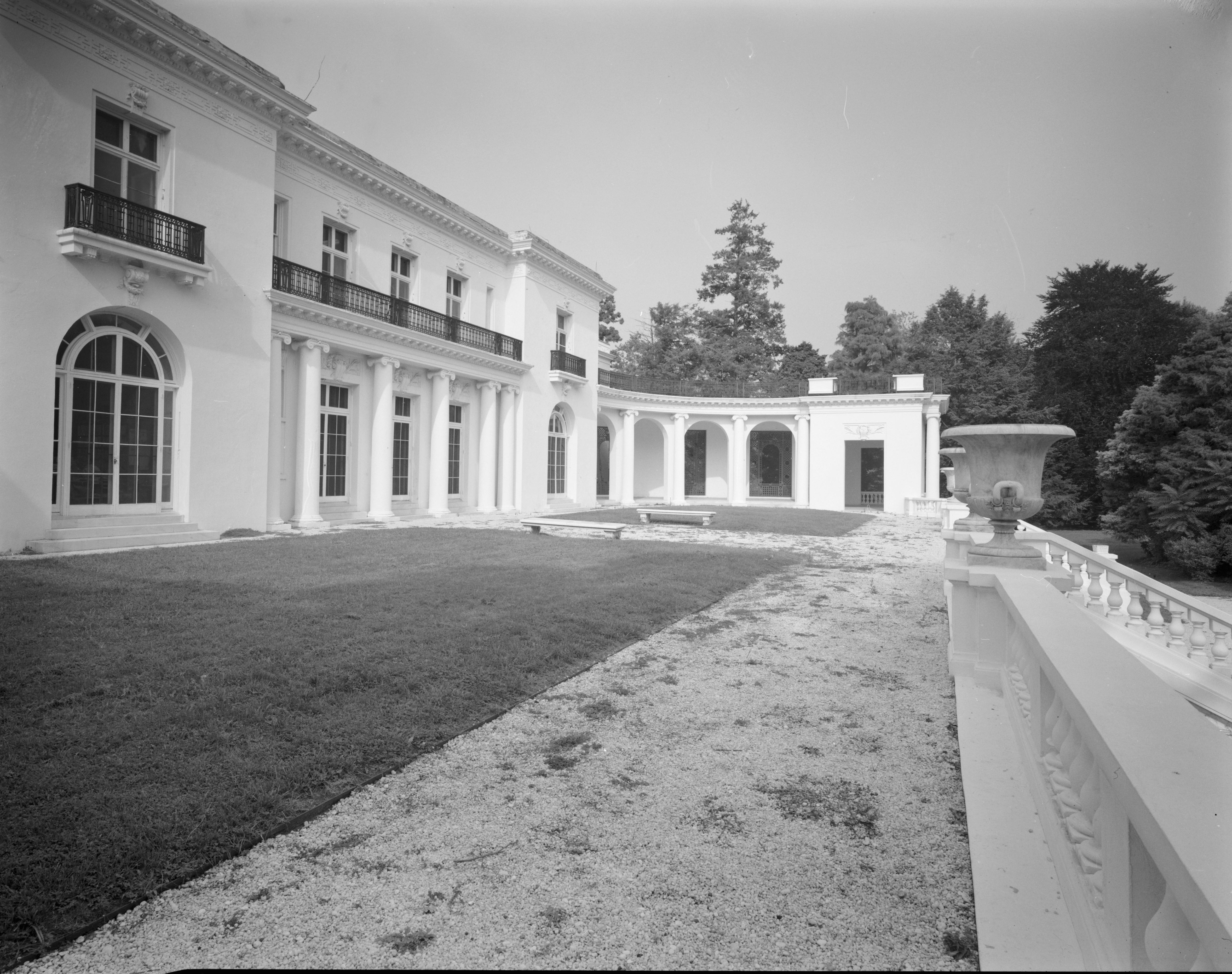 Slightly cropped JPG version of our File:PERSPECTIVE VIEW FROM SOUTHWEST OF SOUTH FACADE AND TERRACE - Murray Guggenheim House, Cedar and Norwood Avenues, Long Branch, Monmouth County, NJ HABS NJ,13-LOBRA,6-2.tif from HABS